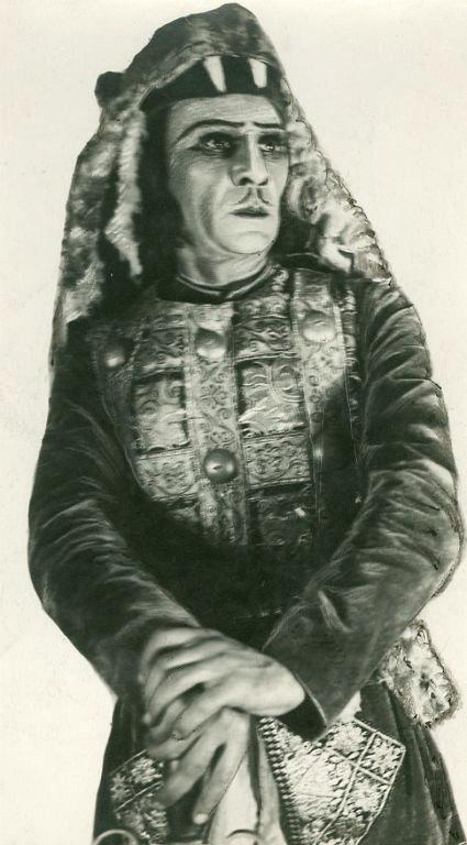 Abbas Mirza Sharifzade as Siyavush (Huseyn Javid's play)